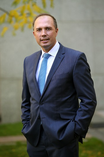 The Hon Peter Dutton MP, Minister for Immigration and Border Protection, at Parliament House, Canberra